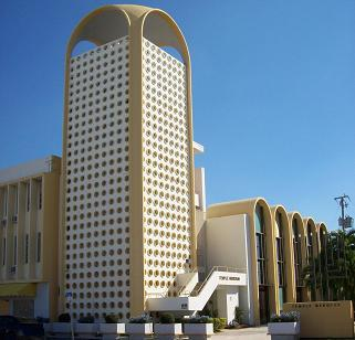 Temple Menorah in Miami Beach, as remodeled by Morris Lapidus